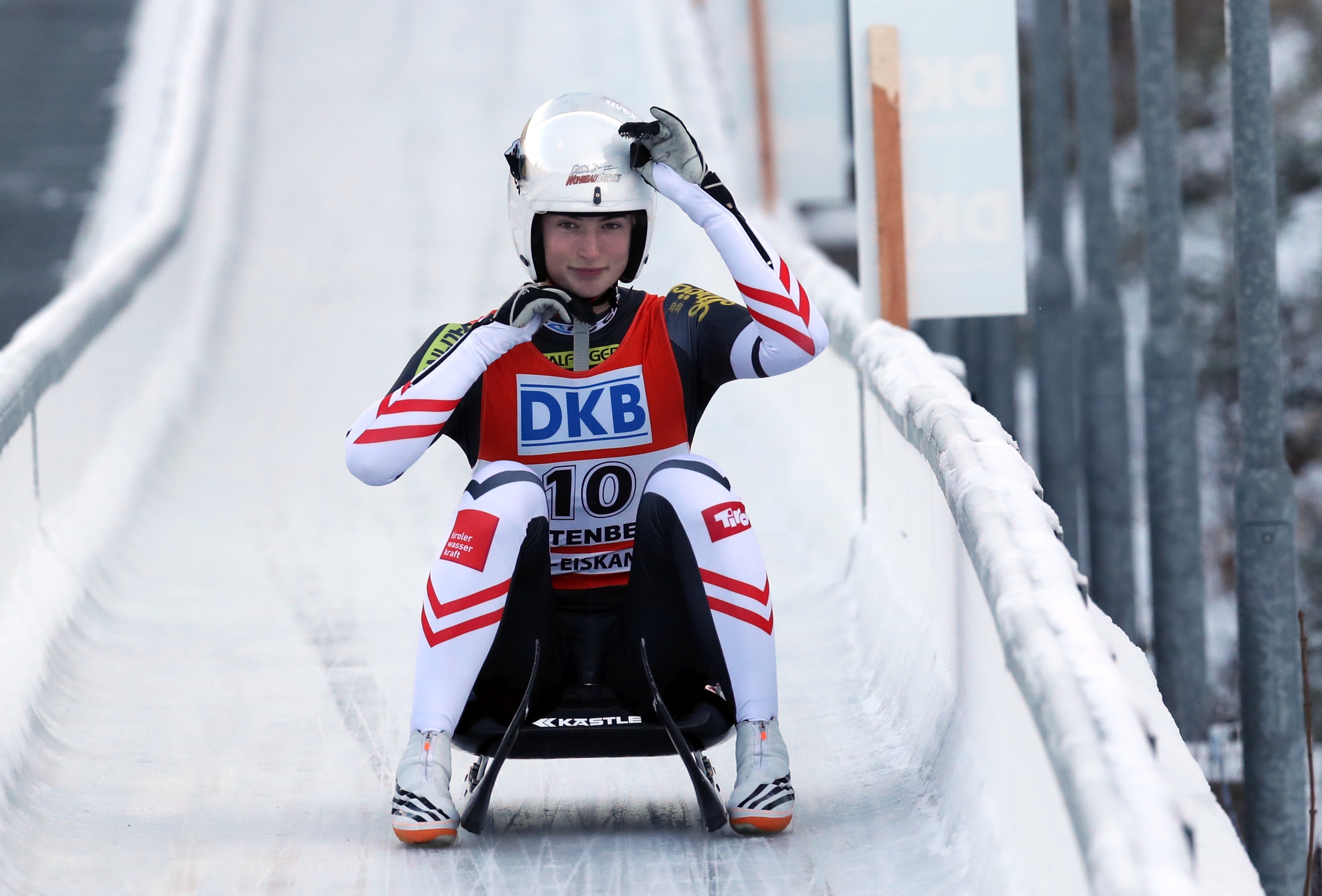 Madeleine Egle (Austria) at the women's Nationscup race in Altenberg